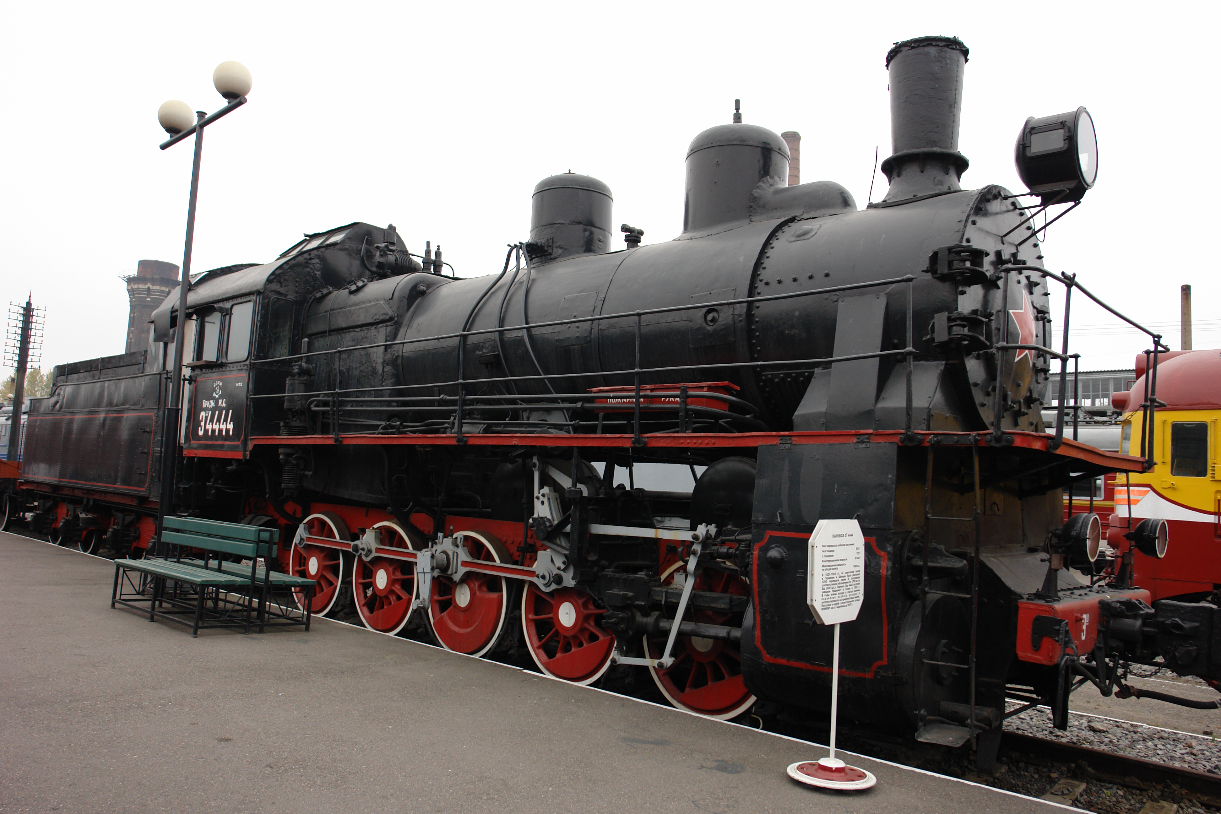 Steam freight locomotive Esh 4444 Weight in working order:excluding tender 80.41.including tender 125 t.Design speed 65 kphMaximum power at wheel rim 1300 hp 1200 Class E locomotives were built for the Soviet railways in Germany and Sweden during 1921-24, and were designated EG (700 locomotives) and ESH (500 locomotives). ESH-4444 was built by Nydquist and Holm in 1924. During the war it was part of the special locomotive reserve, and was used on lines near the battle front. This locomotive came to the museum from the VNIIZhT test circle at Shcherbinka in 1997.